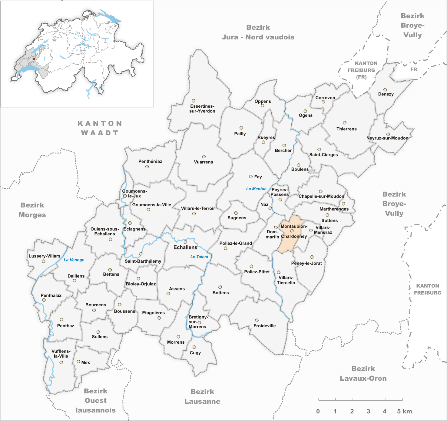 Municipality Montaubion-Chardonney